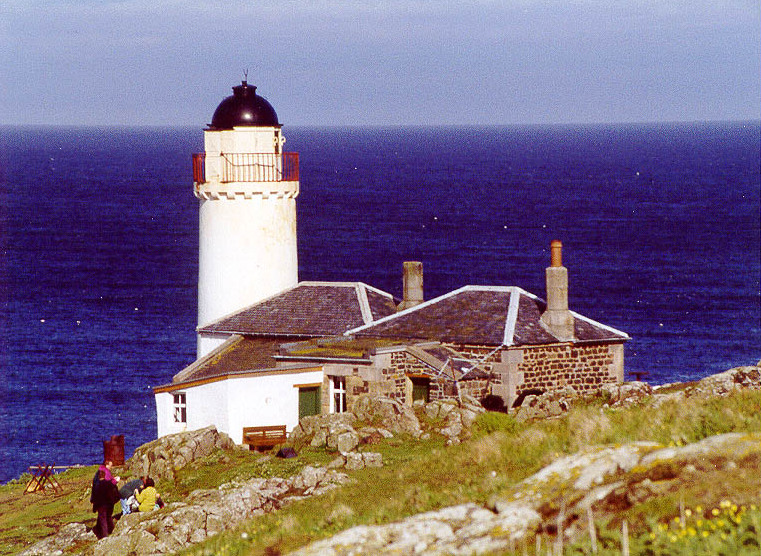 The disused Low Light lighthouse on the Isle of May, Scotland. © Jeremy Atherton, 2000.